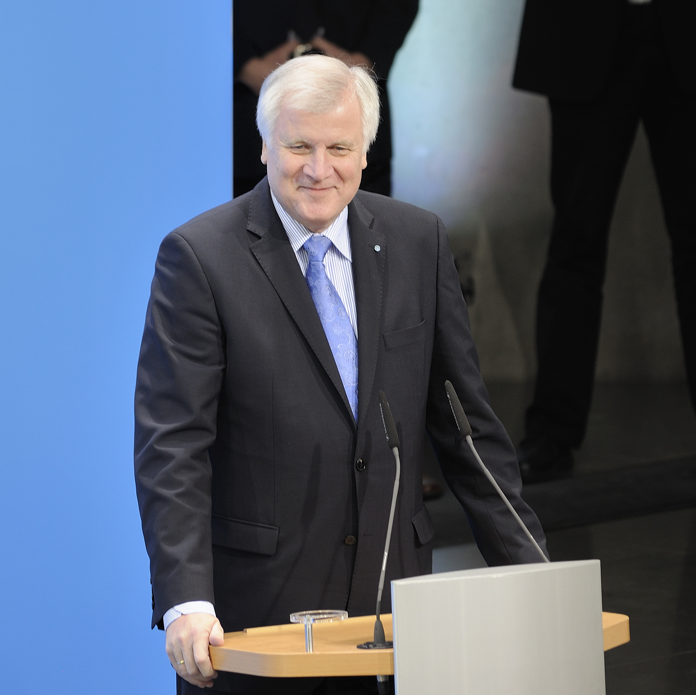 Signing of the coalition agreement for the 18th election period of the Bundestag. Horst Seehofer.